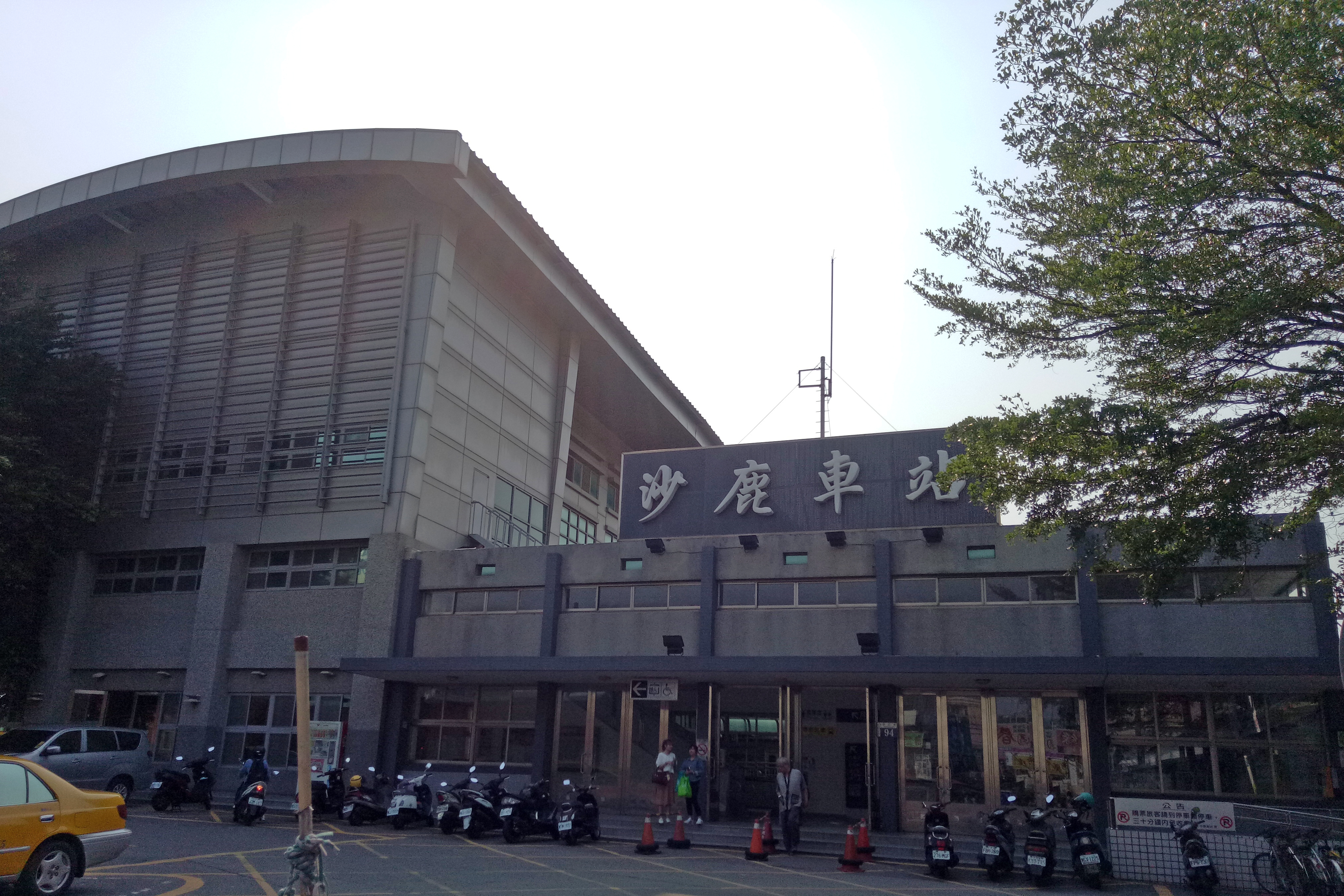 TRA Shalu Station.